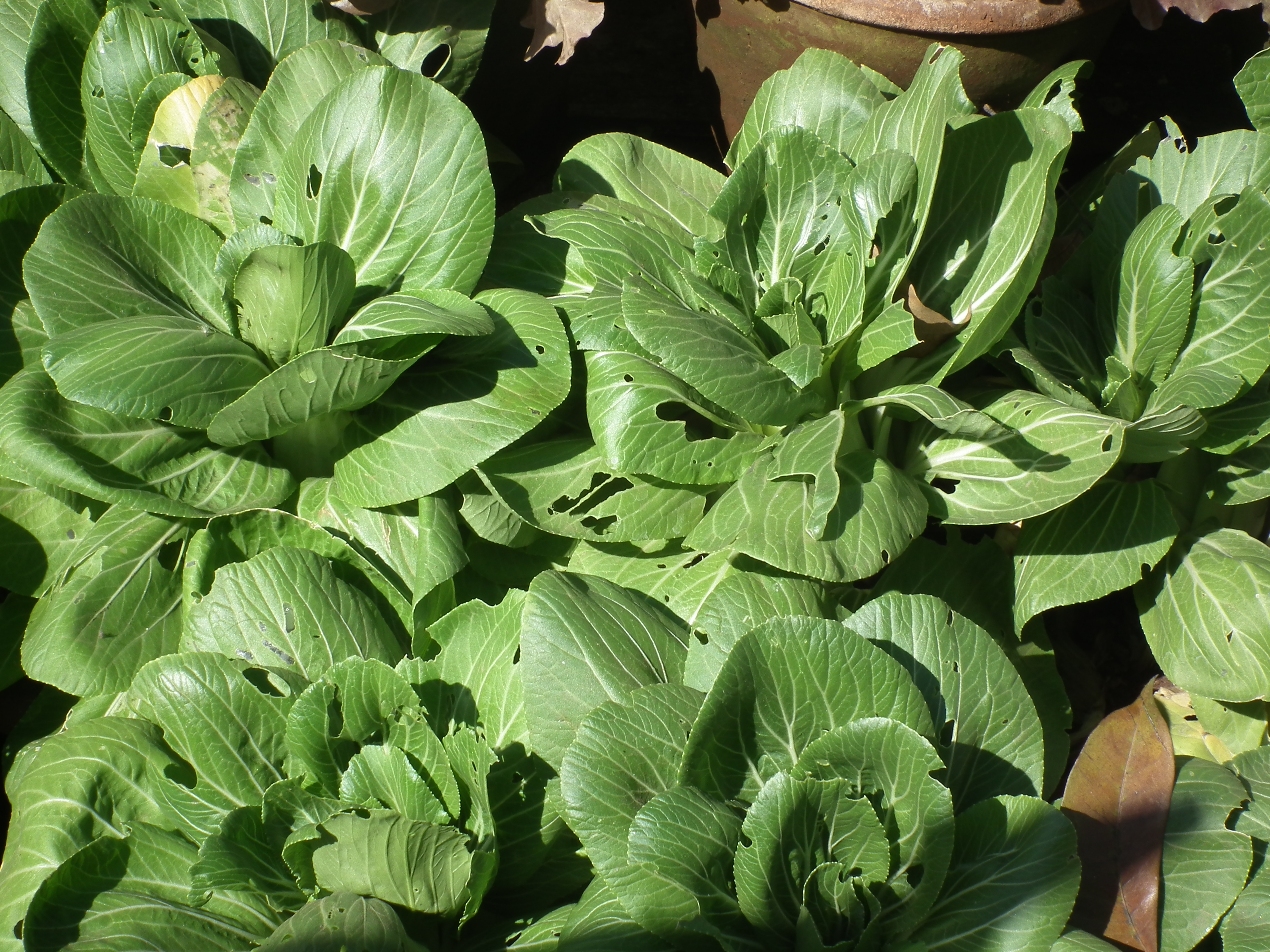 Pak choi plant from Lalbagh during flower show, January 2012, Bangalore, India.